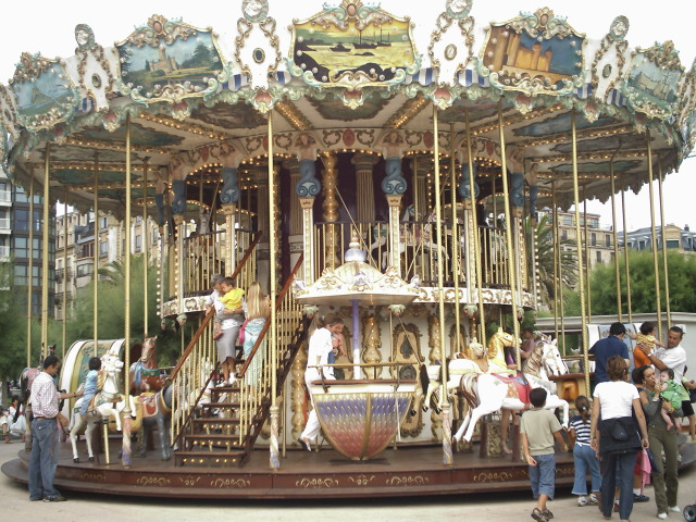 Carousel at Donostia, Basque Country, Spain